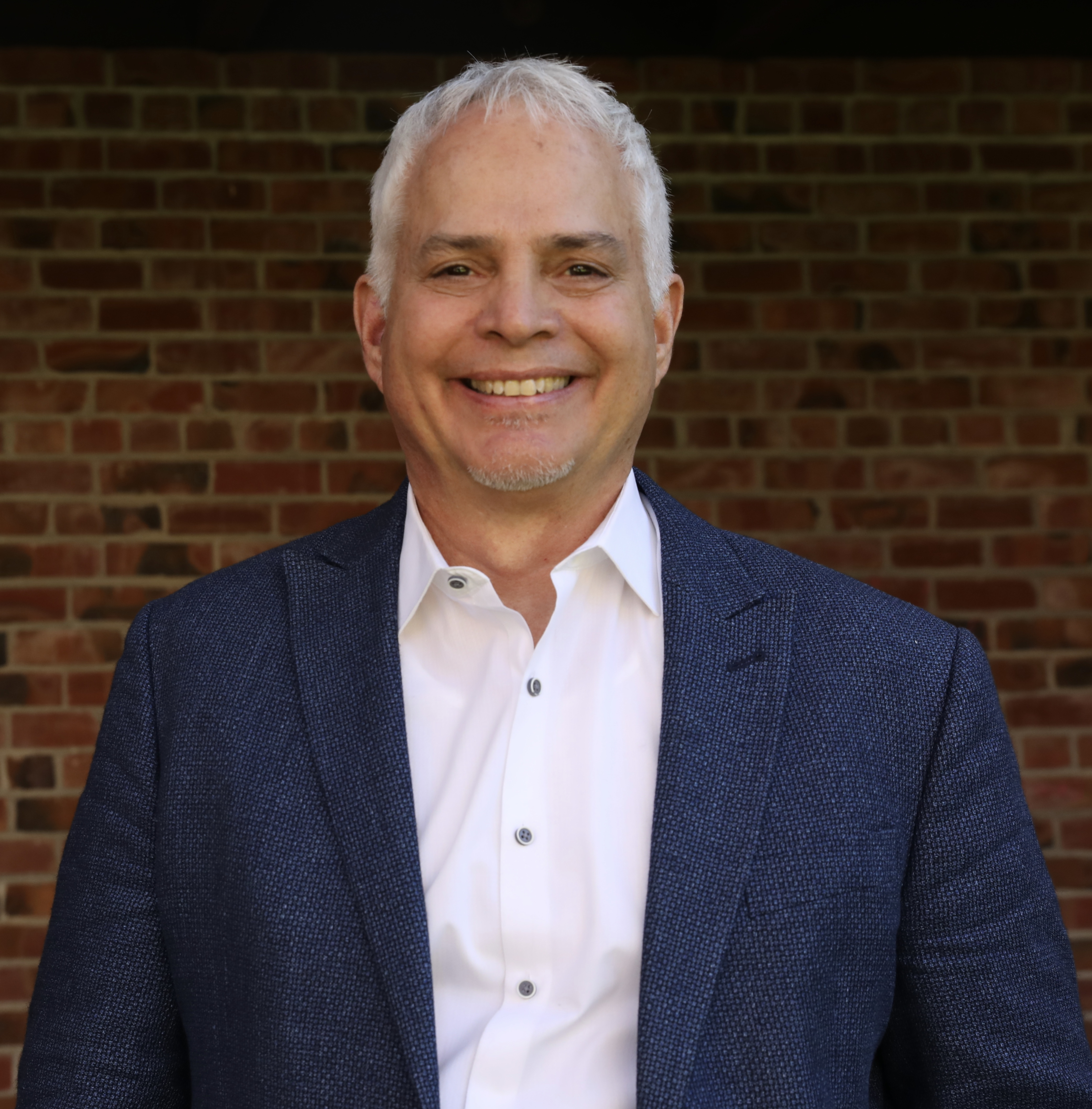 At Berkeley School of Theology (photo by TCO)